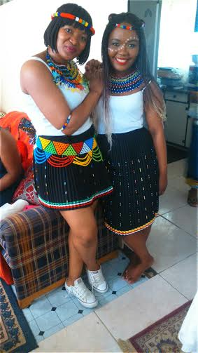 Traditional Zulu attire for a wedding This is an image of Cultural Fashion or Adornment from South Africa